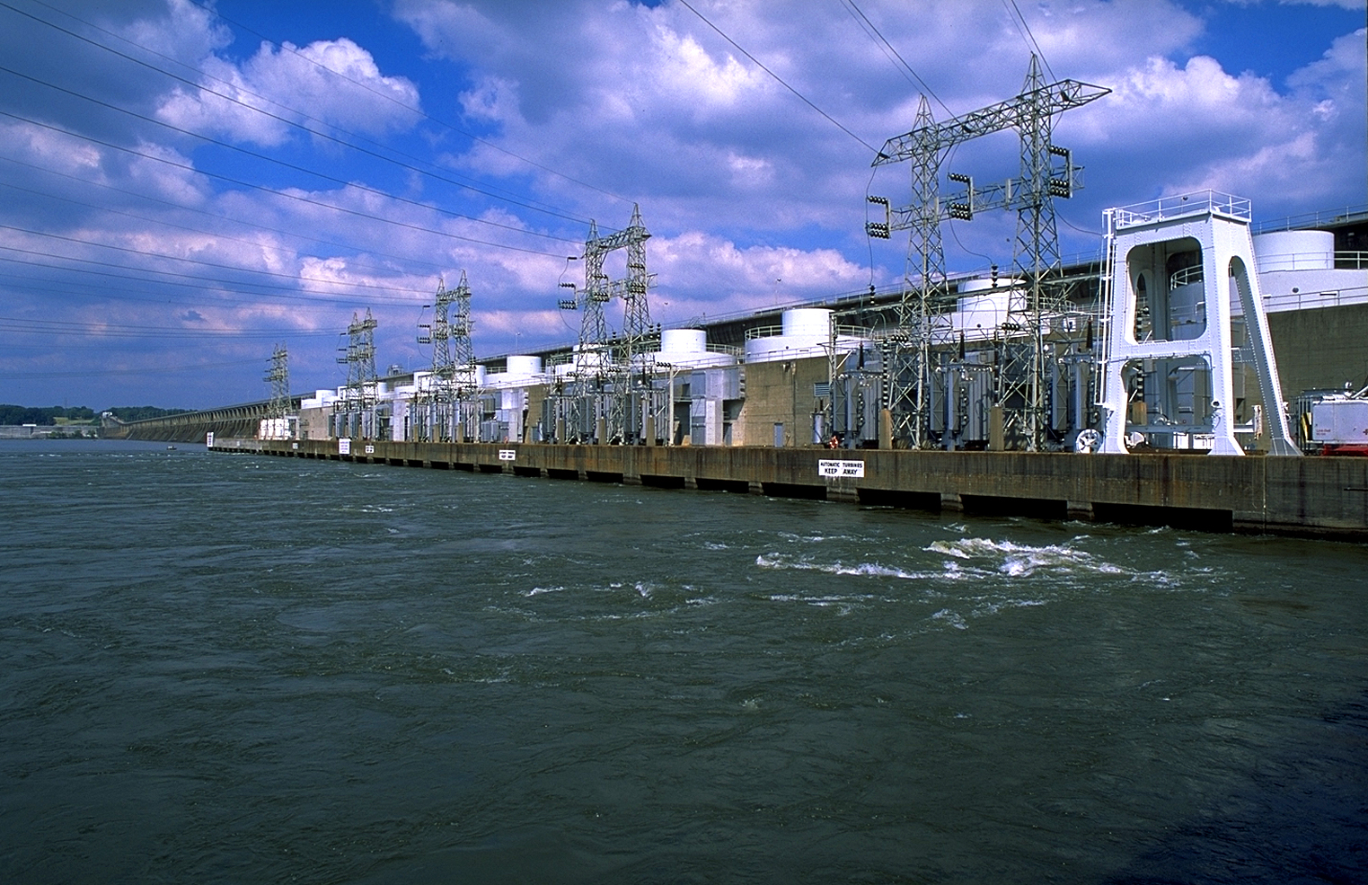 Wheeler Dam on the Tennessee River between Lauderdale County and Lawrence County in the U.S. state of Alabama.